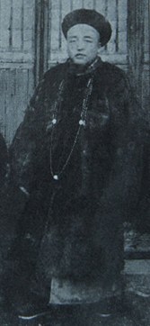 Yu Biyun, Chinese scholar.